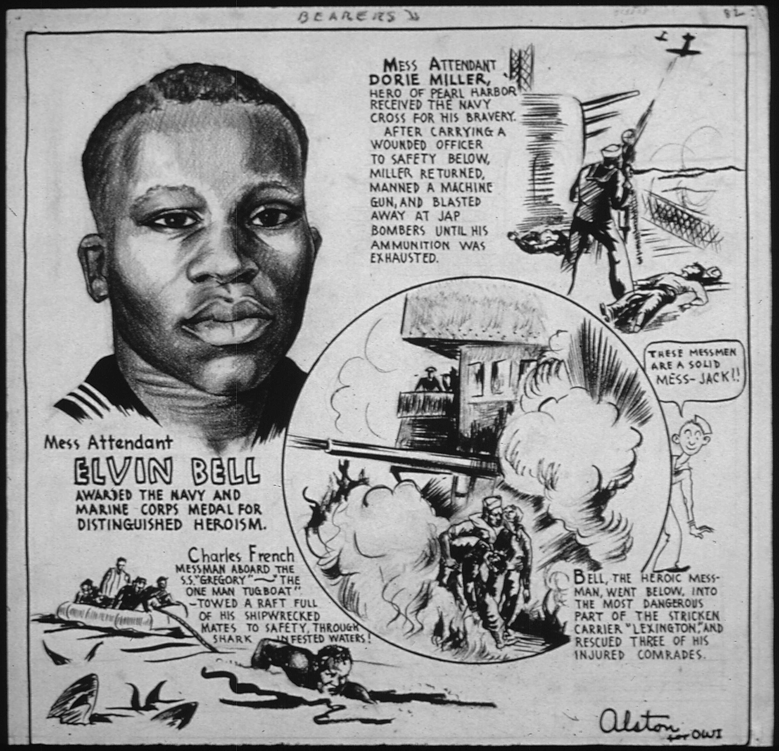 Scope and content: Elvin Bell - with biographical paragraphs.